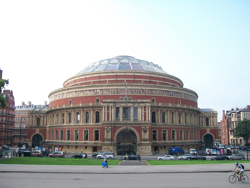 The Royal Albert Hall (London) at noon.